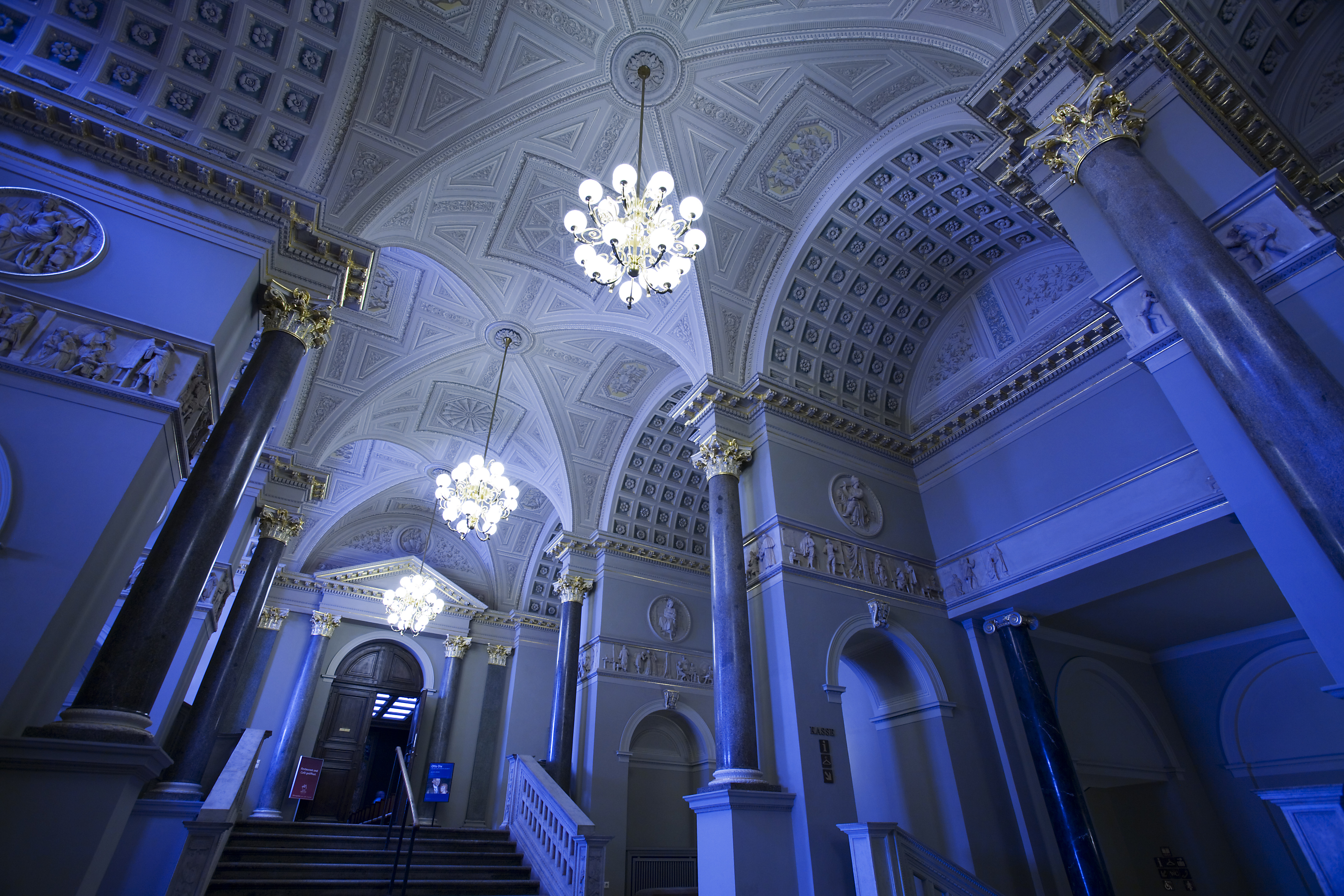 Main hall of the Staatliche Kunstsammlungen Dresden - Gemäldegalerie Alte Meister in the Dresdner Zwinger Museum Dresden Germany